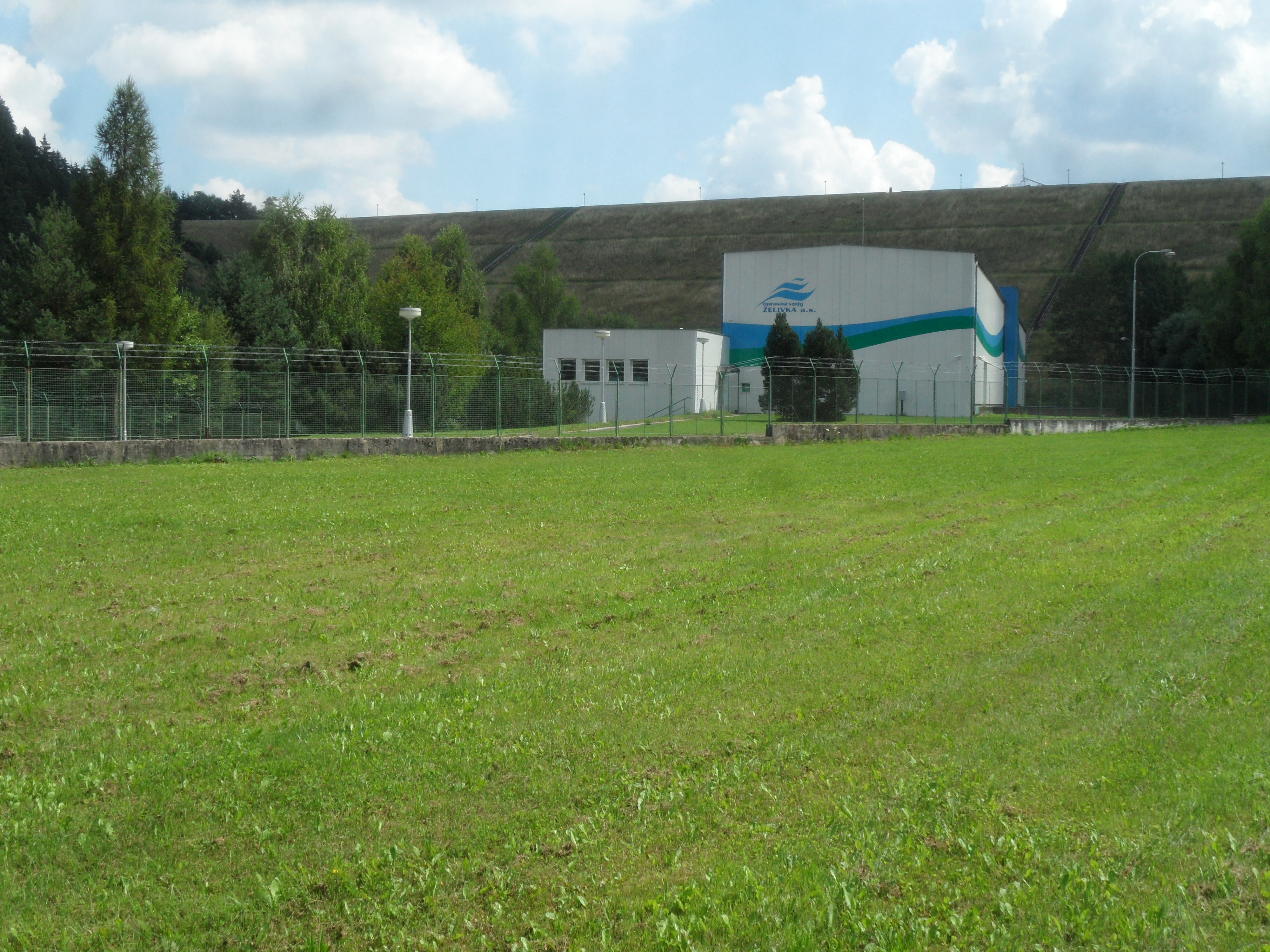 Želivka Water Works D. Lower Building: Semi-Detail, the Czech Republic.